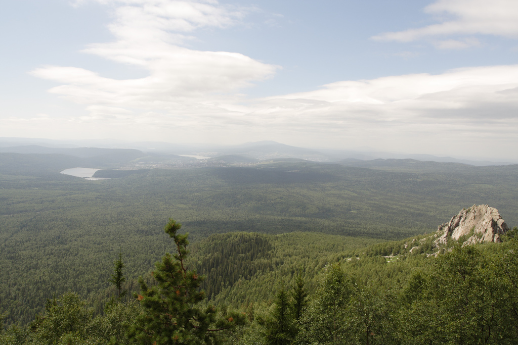 View over National Park Tagani on the industrial Russian town Zlatoust